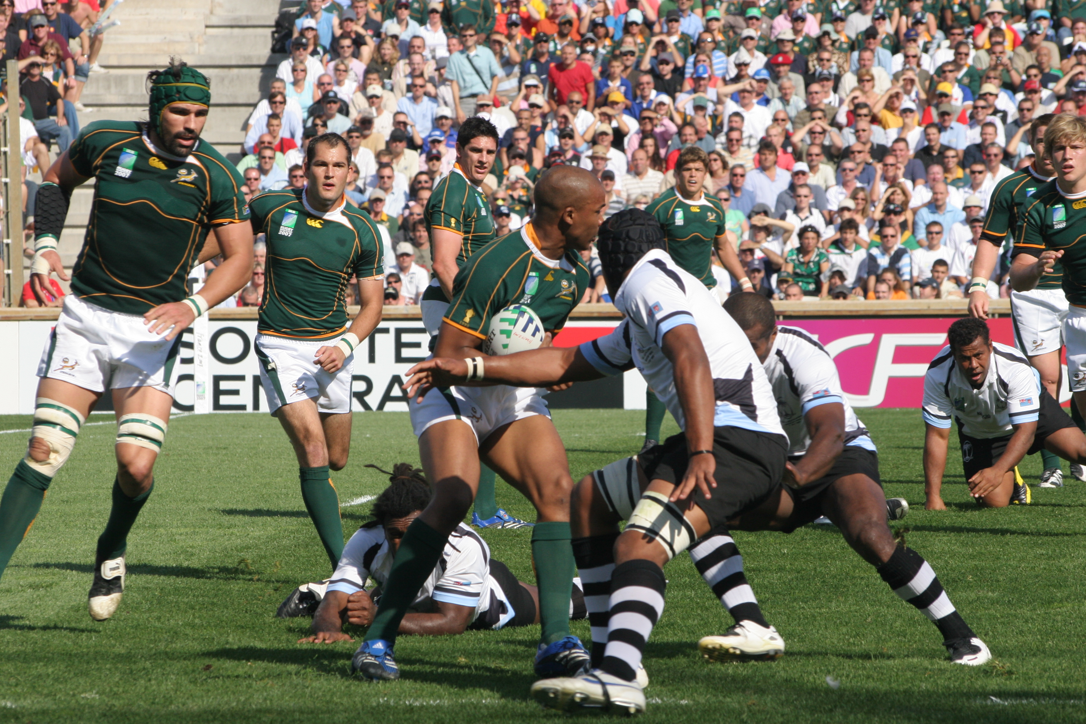 Match between South Africa and Fiji during 2007 Rugby World Cup in Marseille (France).